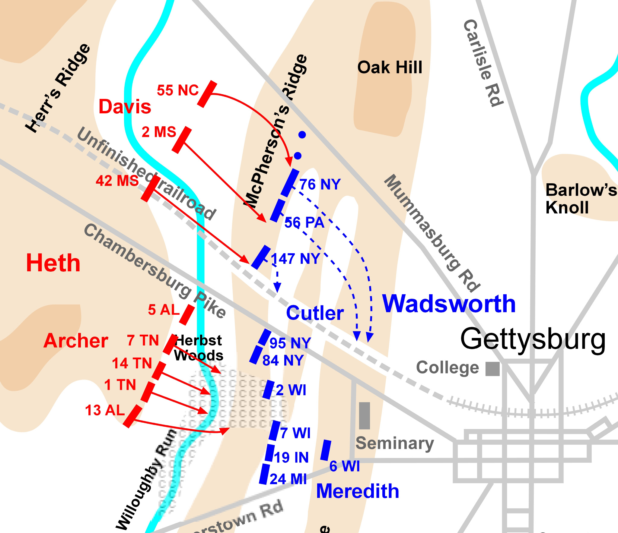 Drawn by Hal Jespersen in Macromedia Freehand. Source file available